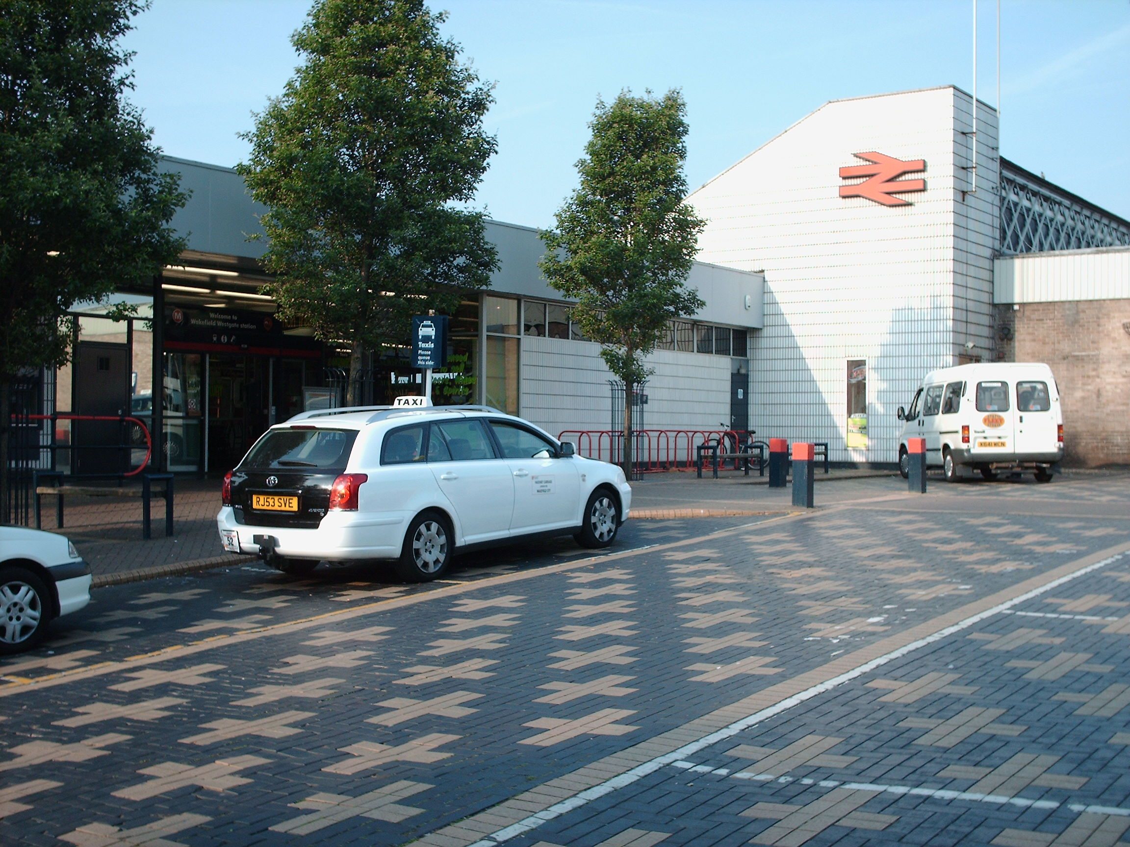 Wakefield Westgate railway station, West Yorkshire. The station entrance.